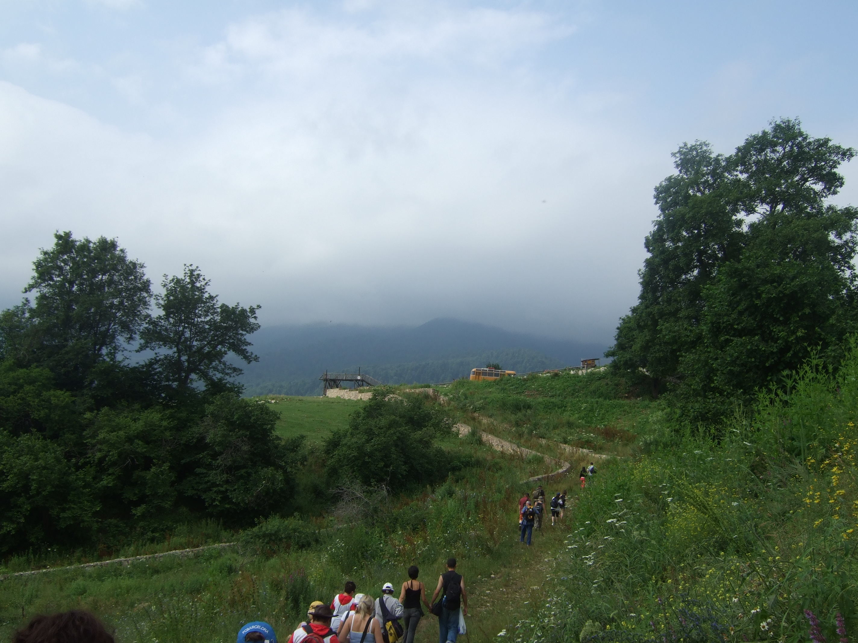 Hiking in Lastiver, Tavush Province, Armenia